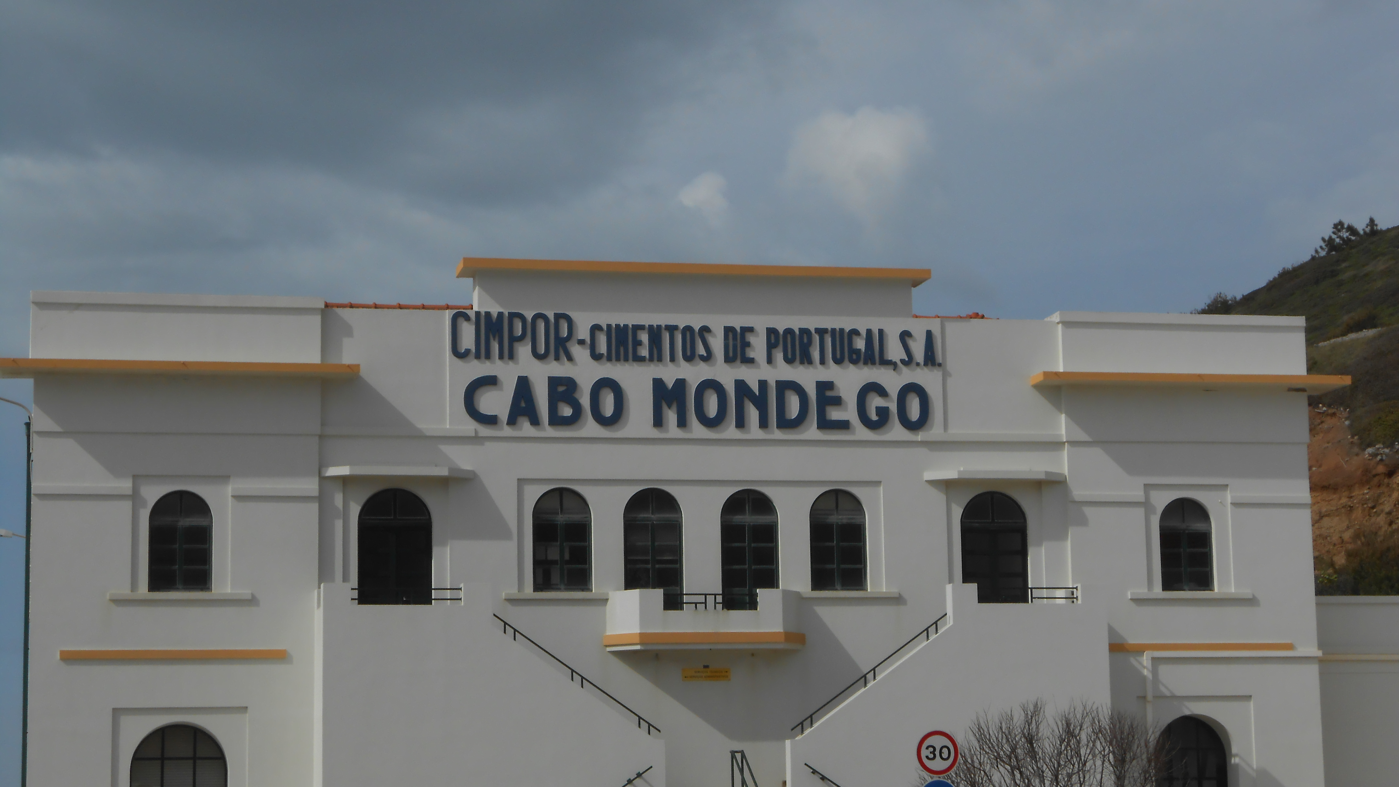 Building of the cement manufacturer Cimpor at the Cape Mondego